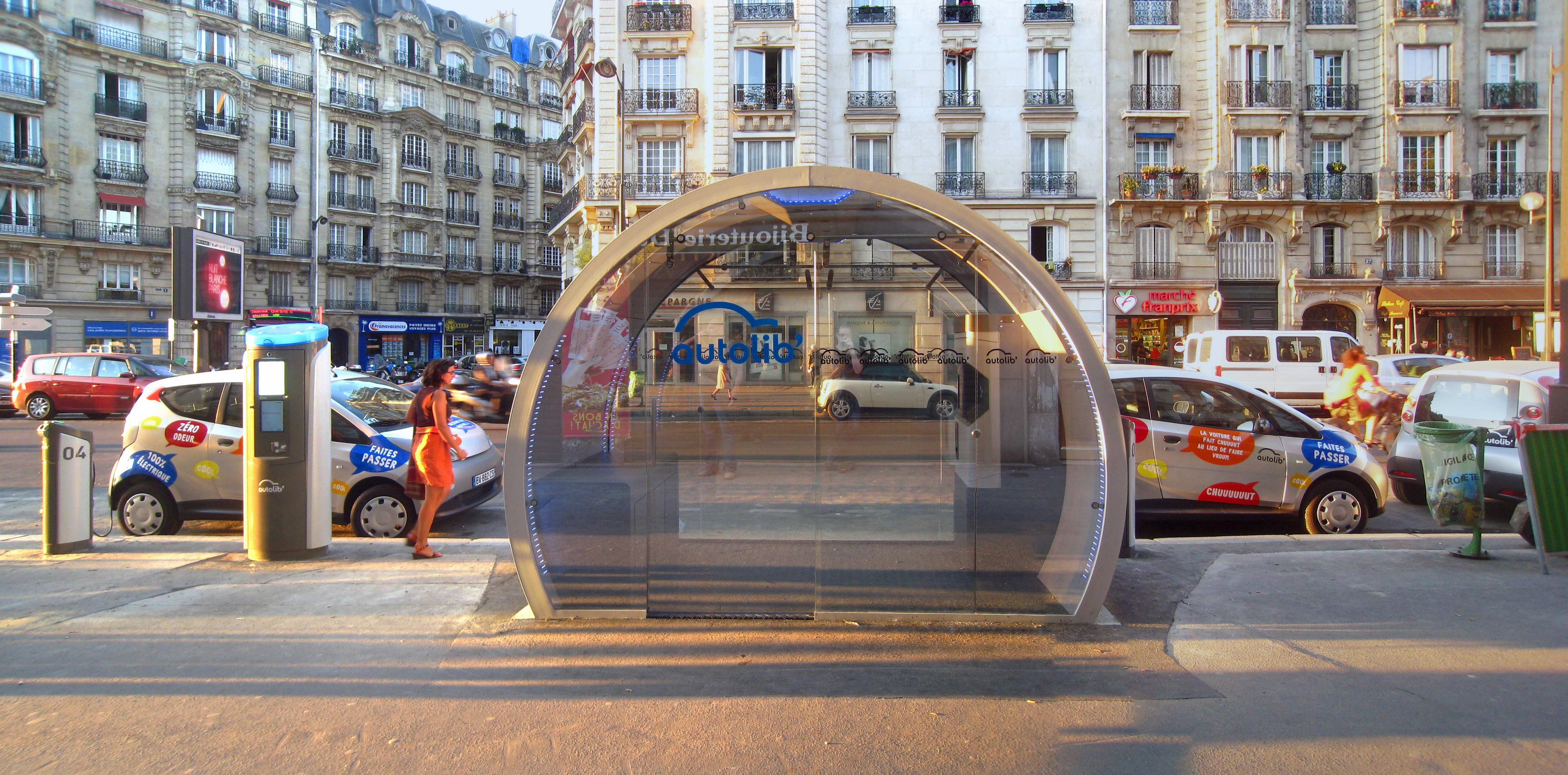 Autolib' Station on boulevard Diderot, Paris XIIe arrondissement, France. Panoramic view of station, with kiosk and two cars.